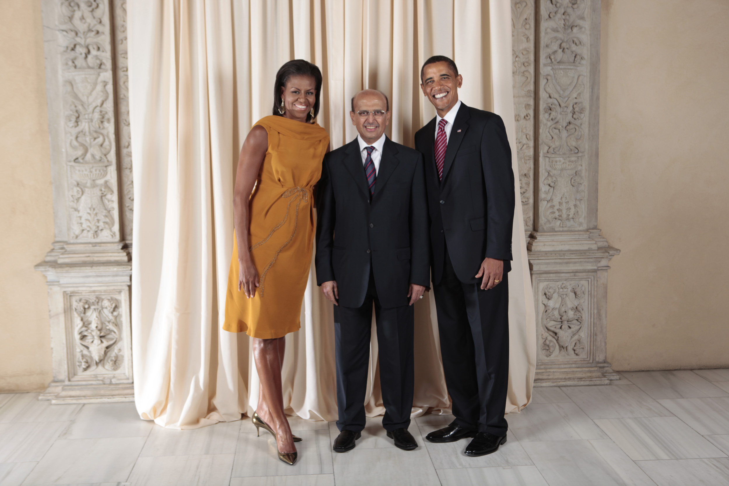 President Barack Obama and First Lady Michelle Obama pose for a photo during a reception at the Metropolitan Museum in New York with Abdu Baker Abdullah Al-Qirbi of Yemen.